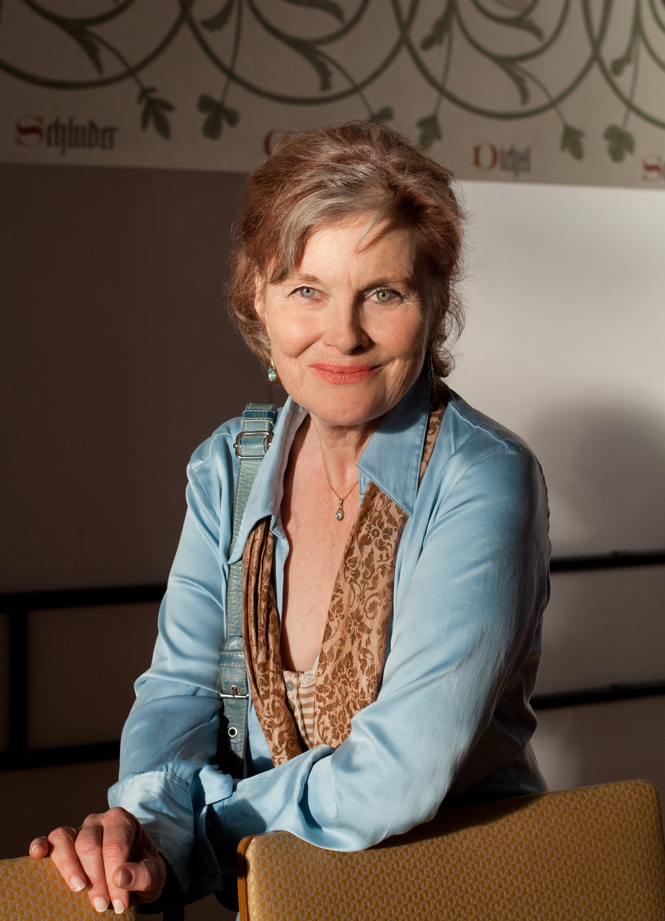 Bettina Kenter-Götte (* 1951), German actor, author and director